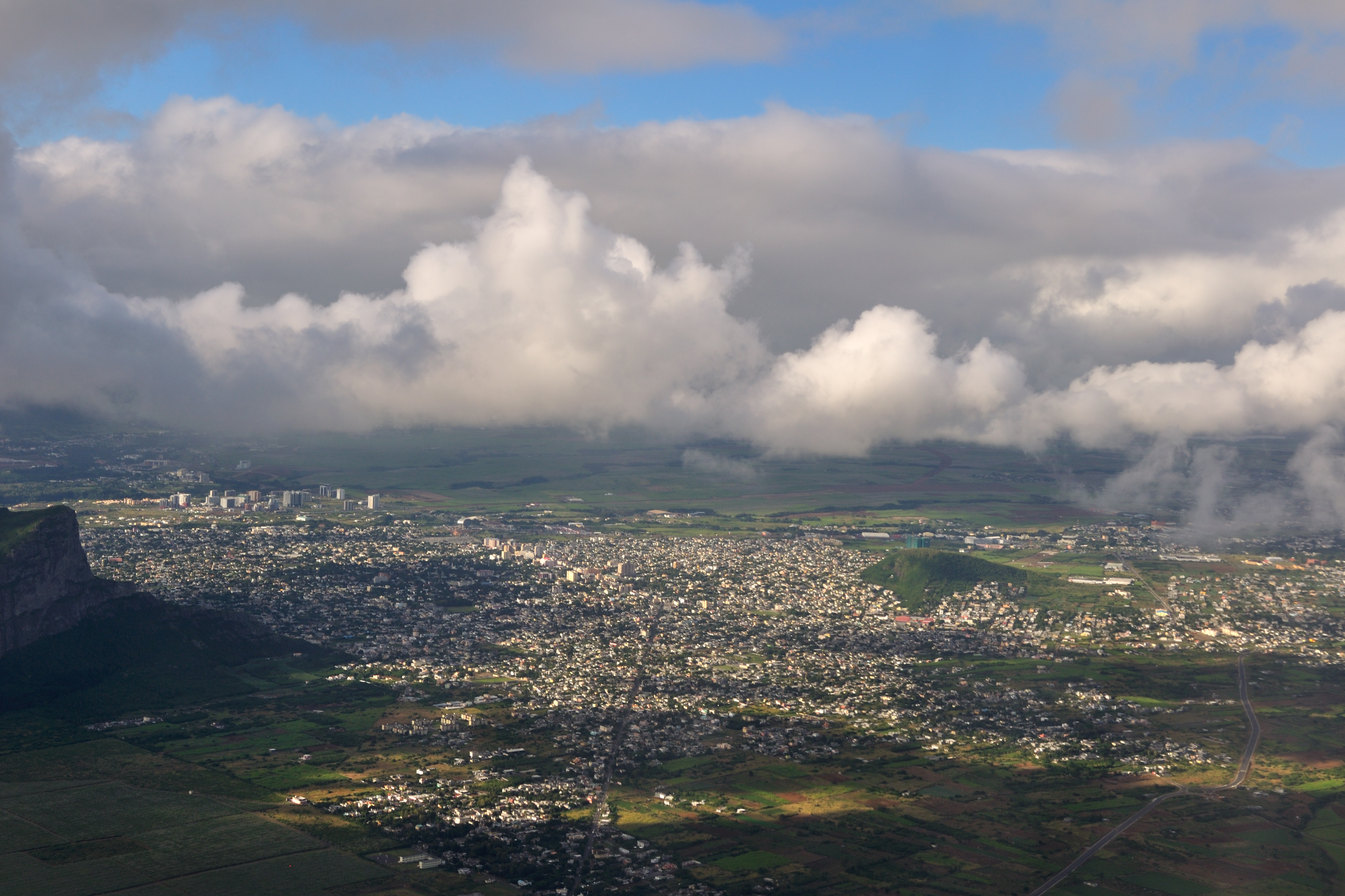 Mauritius, aerial impressions of Mauritius during an approach into Sir Seewoosagur Ramgoolam International Airport